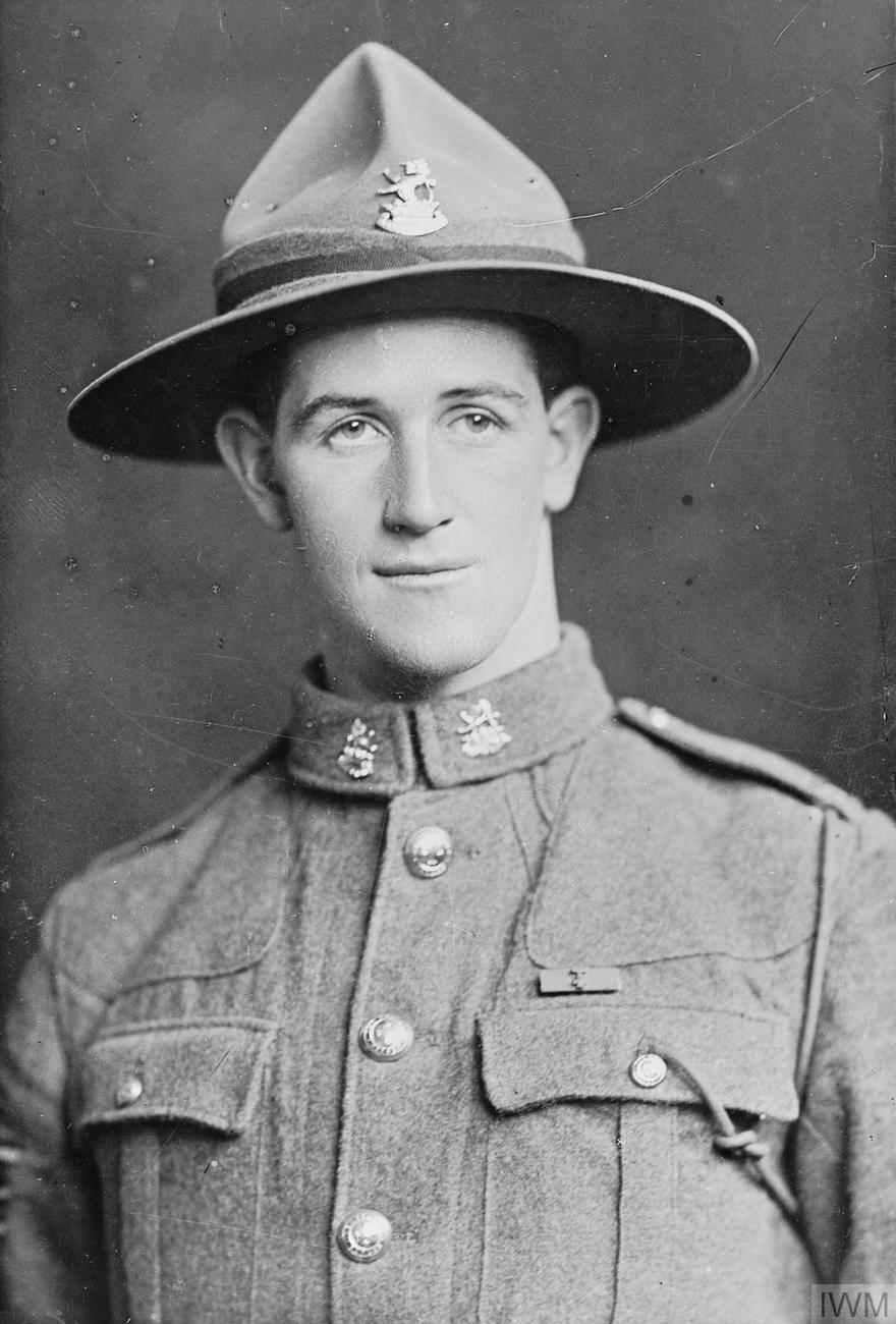 Sergeant Leslie Wilton Andrew VC DSO, of the 2nd Battalion, Wellington Regiment, New Zealand Expeditionary Force.